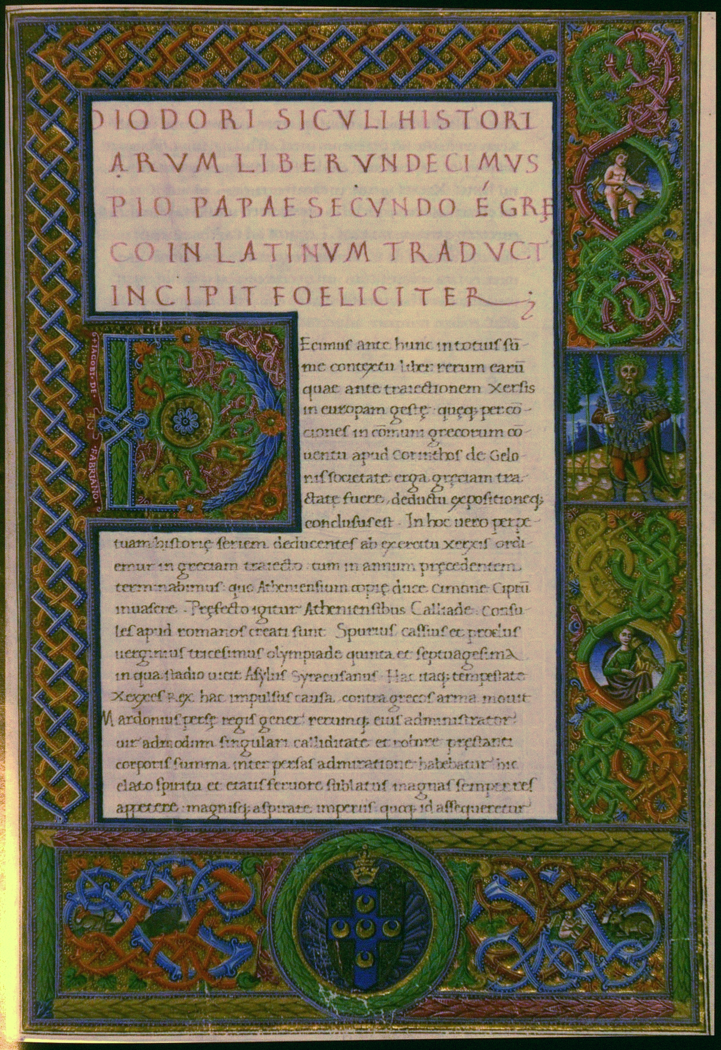 The beginning of the eleventh book of the Bibliotheca historica in the Latin translation by Iacopo da San Cassiano dedicated to Pope Pius II. Manuscript Vatican City, Biblioteca Apostolica Vaticana, Vat. lat. 1816, fol. 2r